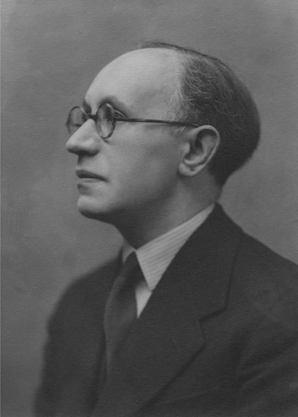 Morris Ginesberg in the 1930's